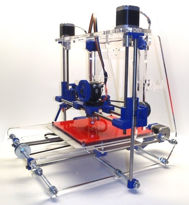 3D Printer (model AW3D V.4) manufactured by Airwolf 3D in Southern California is based on a rigid frame, the printer is both precise and the build platform is easily accessible. Operates on constantly updated open source software and custom calibrated open source firmware..